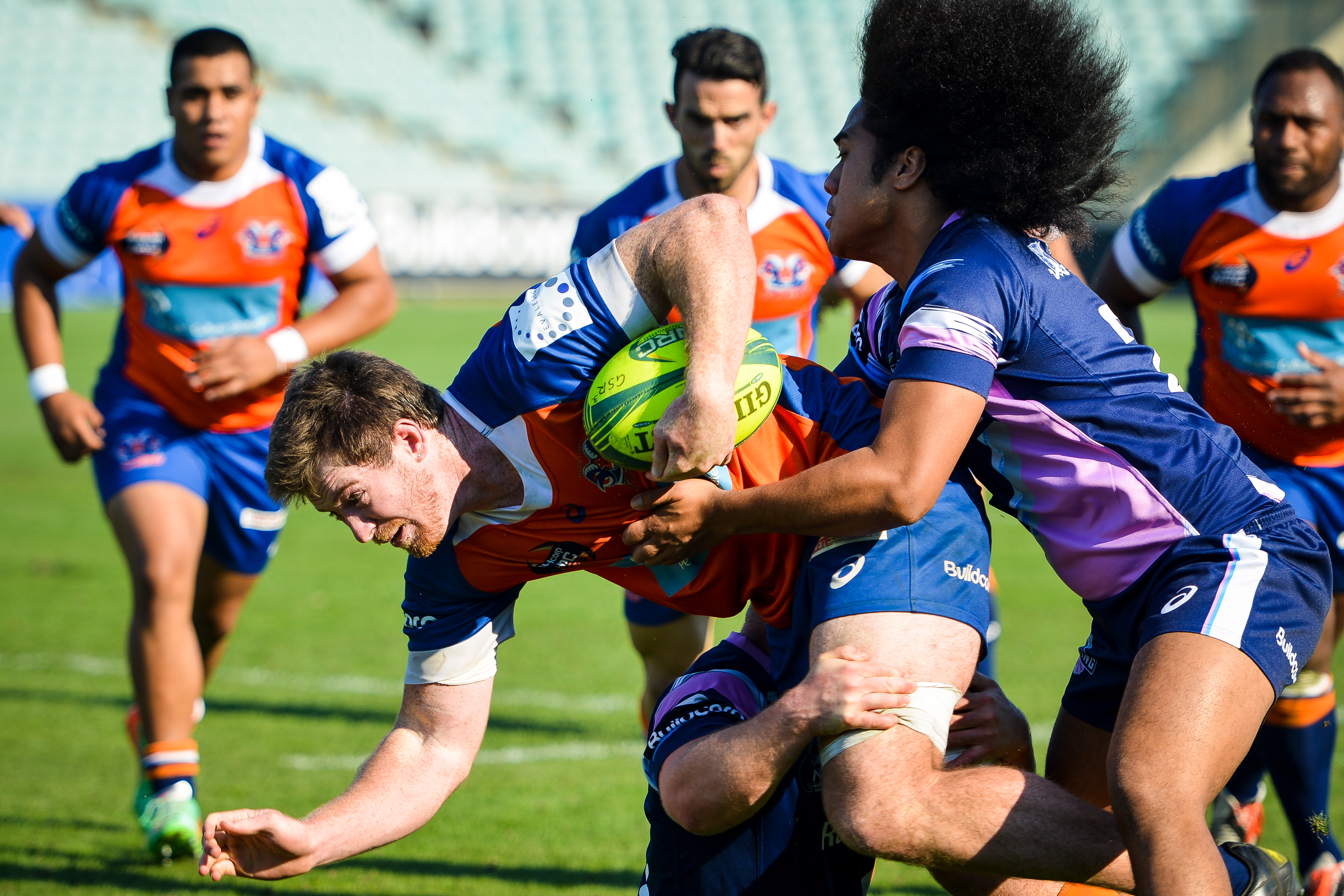 Jed Holloway tackled during a game with Greater Sydney Rams